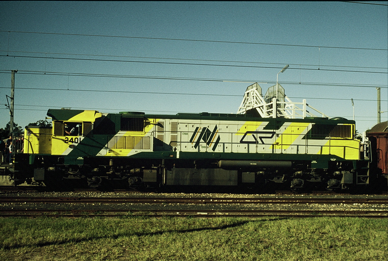 QR loco 2401 in special Bicentennial paint scheme, 1987